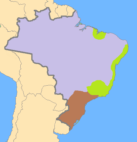 Map of the Empire of Brazil (1822-1889) with aproximate boundaries of each ethnic groups and the area where each is majority. In light purple: caboclos. In light green: mulattoes. In light brown: whites.